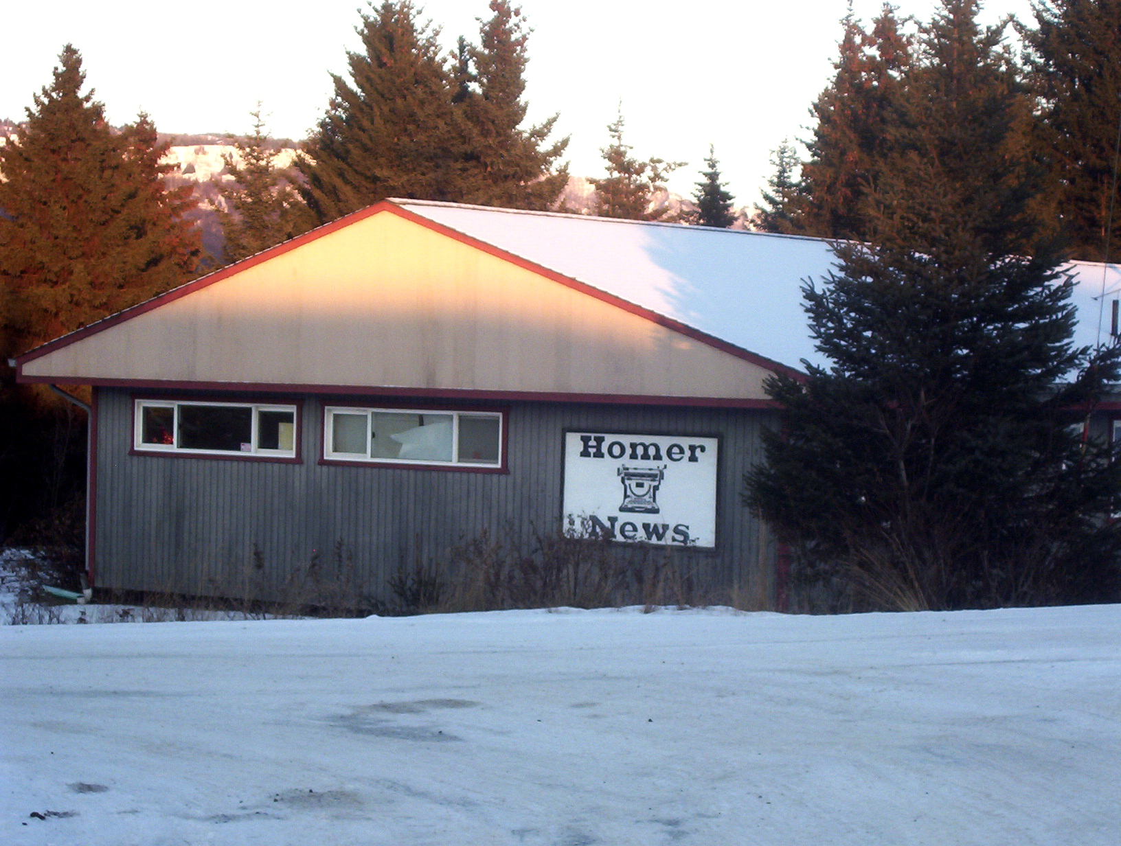 Homer News offices, Landings Street, Homer, Alaska.